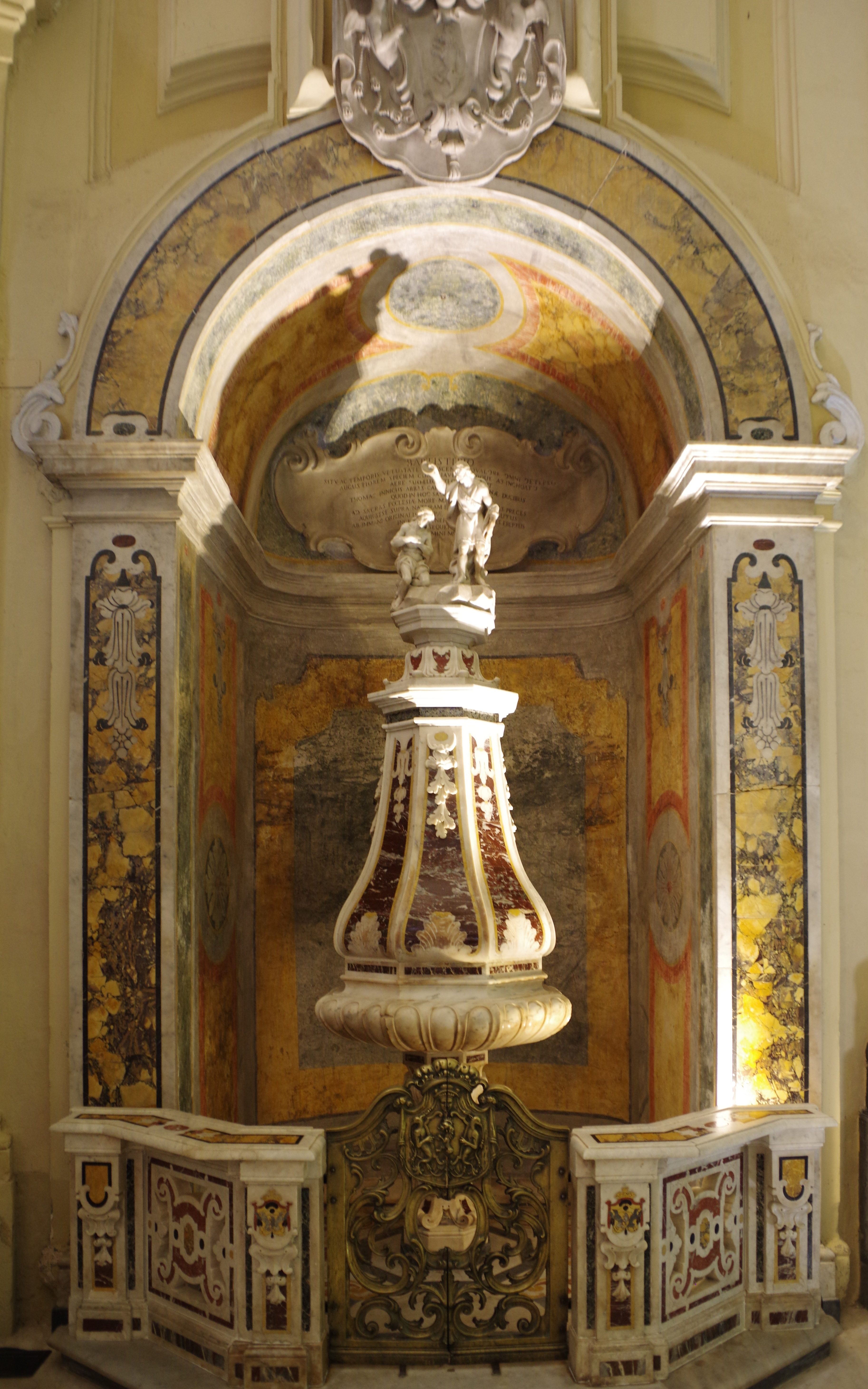 Italy, Martina Franca, San Martino